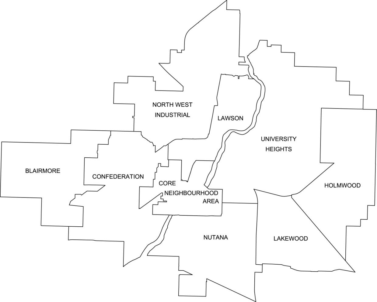 A map of Saskatoon showing its division by suburban development area (SDA) as of 2012